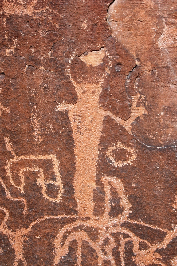 Detail of the Rochester Rock Art Panel in Emery County, Utah